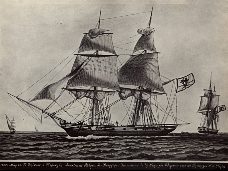 1820: Mar. 20: The brig "Pericles" property of Andreas X'Anargyrou governed in battle (against the) Ottomans by captain N. I. Raftis Andreas Hazdjianargyrou - X'Anargyrou - of the 18-19th century nautical family of Hazdjianargyrou of the island of Spetses